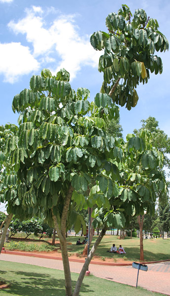 Octopus Tree Schefflera actinophylla in Hyderabad , India.